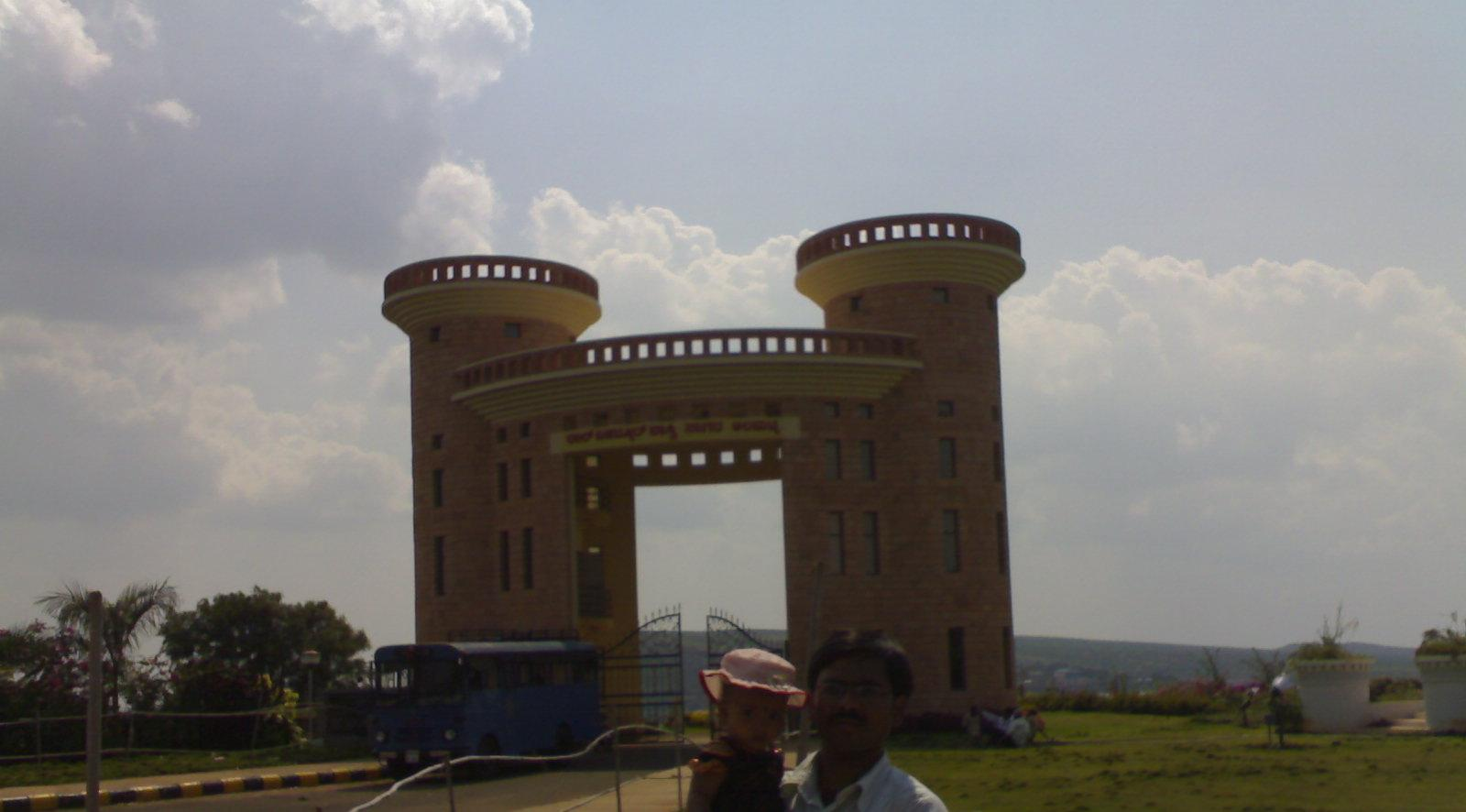 Almatti